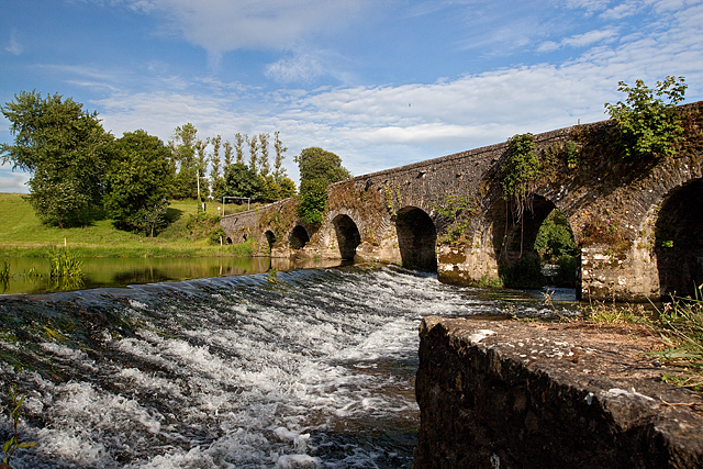 Glanworth Bridge This solid 12 arch bridge over the Funshion river at Glanworth north-west of Fermoy, was built in about 1600. Its width is barely wide enough for a cart, let alone a modern car, which suggests it has been little altered since then.